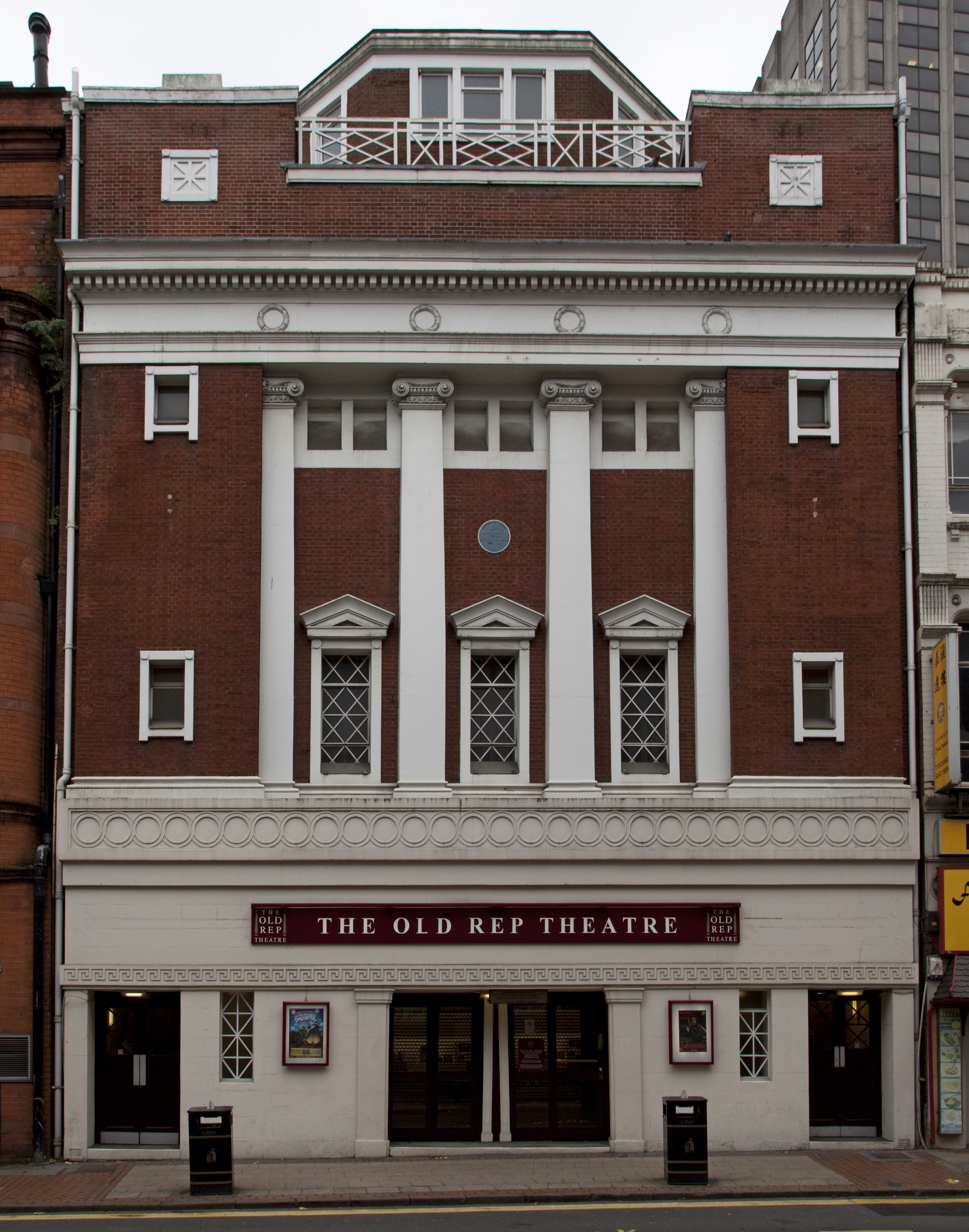 The Old Rep is a theatre located in Station Street. Construction began in October 1912 and it was opened on February 15, 1913, it was the first purpose-built repertory theatre in the UK.